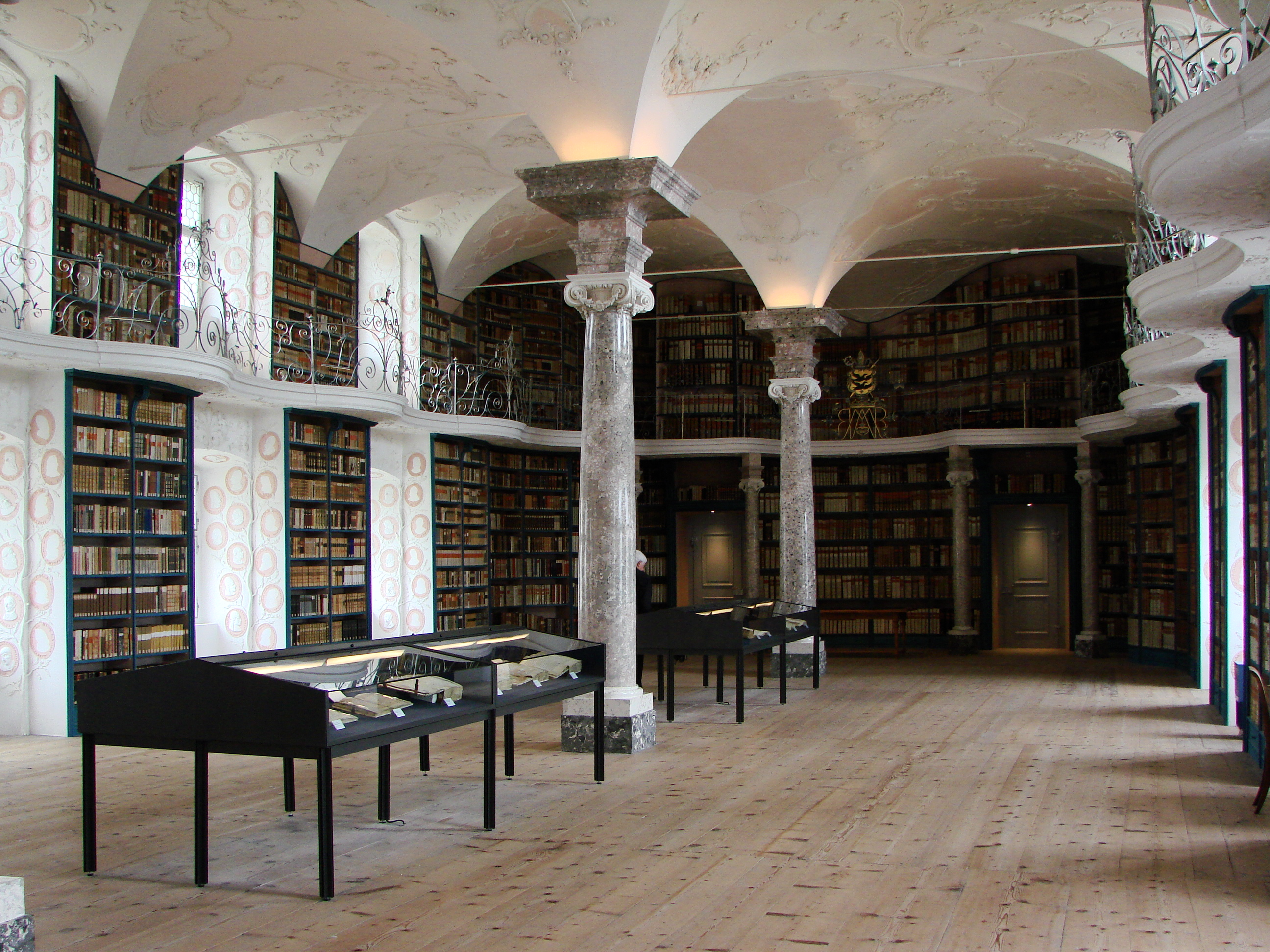 Library of the Einsiedeln Abbey (Switzerland).